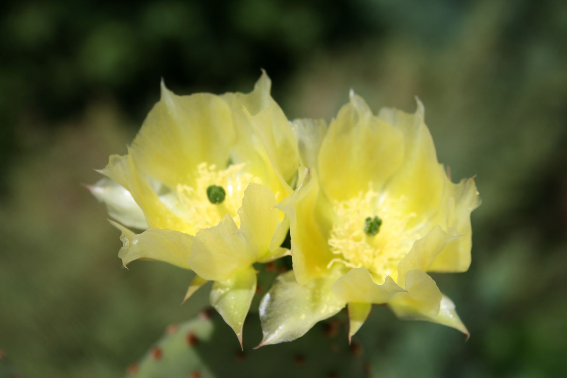 Opuntia microdasys